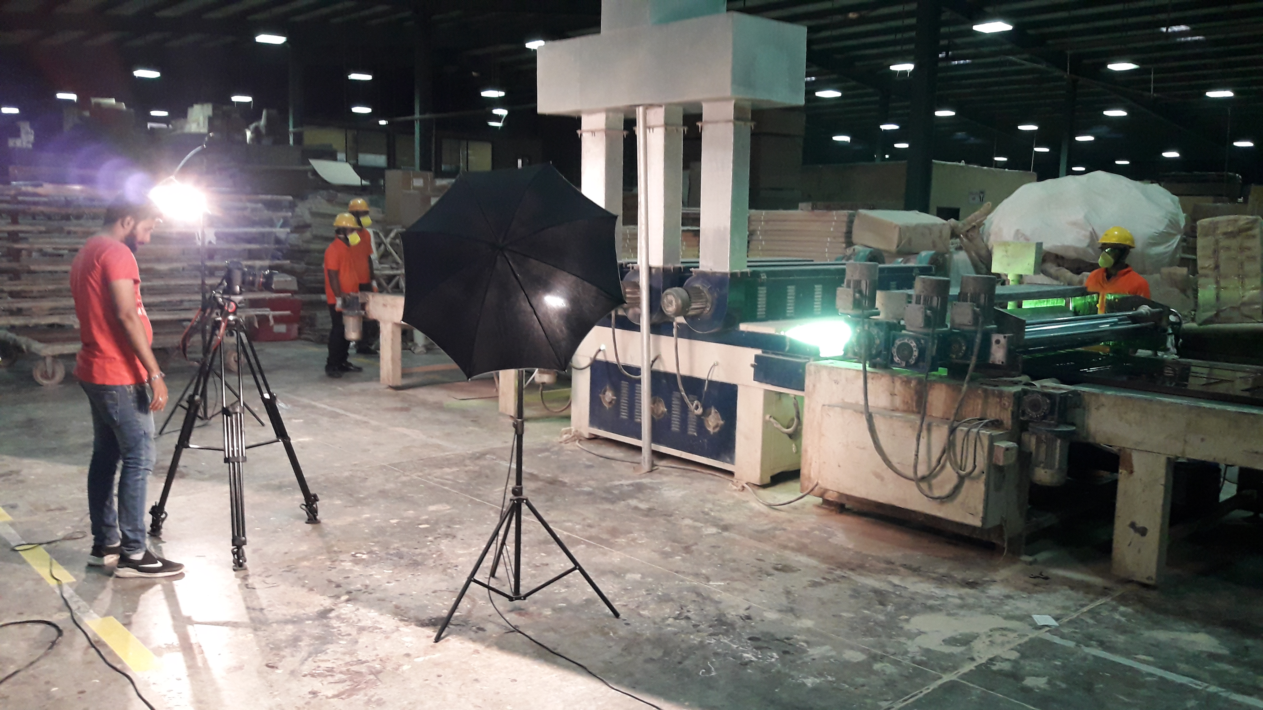 The video shoot of a manufacturing unit in India